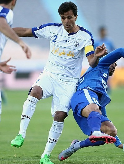 Mohammad Tayyebi